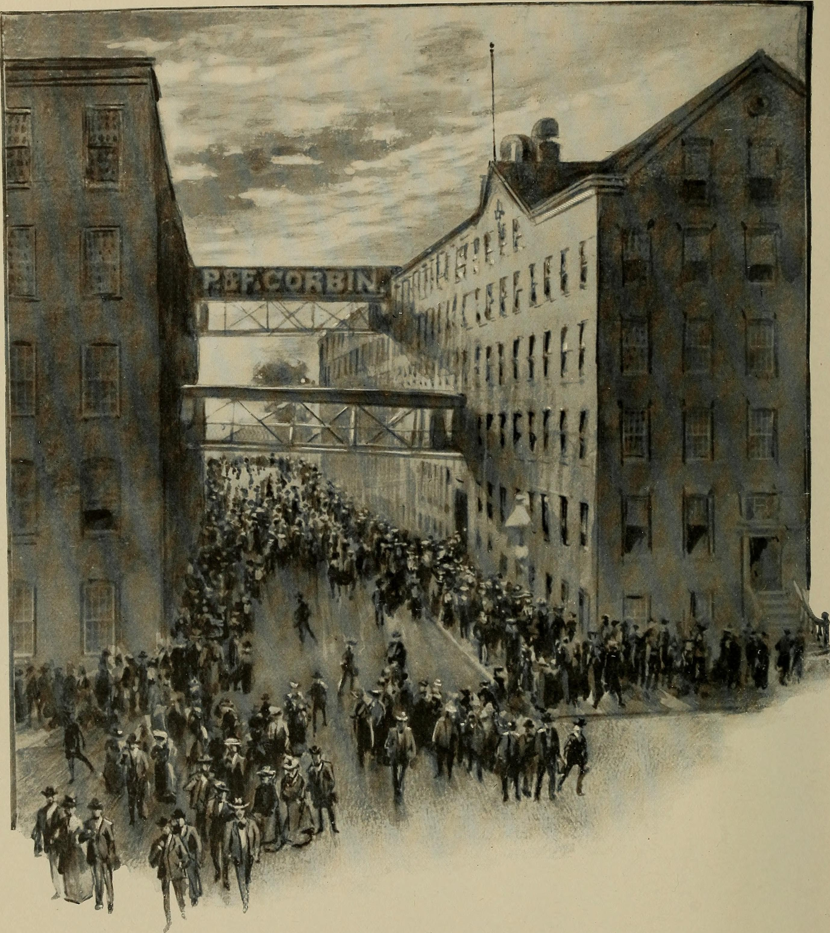 Title: Year: 1904 (1900s) Authors: Comstock, John B Atwell, George C., comp Subjects: Corbin, P. & F Locks Publisher: (Buffalo and New York, The Matthews-Northrup Works) Text Appearing Before Image: resident,Clarence A. Earl. President.Charles Glover. Assistant Secretary,William J. Surre. Treasurer and Secretary,Theodore E. Smith. Directors. Philip Corbin,Charles M. Jarvis,Charles Glover,Howard S. Hart, Theodore E. Smith,Charles H. Parsons,Benjamin A. Hawley,Clarence A. Earl, Andrew Corbin. 103 CoRBiN Cabinet Lock Co.Officers. President and Treasurer,Philip Corbin. First Vice-President,Andrew Corbin. Second Vice-President,Charles M. Jarvis. Secretary,George W. Corbin. Directors. Philip Corbin,Andrew Corbin,George W. Corbin,Albert F. Corbin, Charles M. Jarvis,Charles Glover,Darius Miller,John B. Talcott, Charles G. Miller. 104 The Corbin Motor Vehicle Corporation Officers. President,Philip Corbin. Vice-President, Treasurer, Charles M. Jarvis. Howard S. Hart. Secretary and Assistant Treasurer,Paul P. Wilcox. Directors. Philip Corbin, Paul P. Wilcox, Charles M. Jarvis, Epaphroditus Plck, K^owARD S. Hart, Andrew J. Sloper, Charles Glover, Robert C. Mitchell, Frederick N. Manross. 105 Text Appearing After Image: THE DAYS WORK DONE